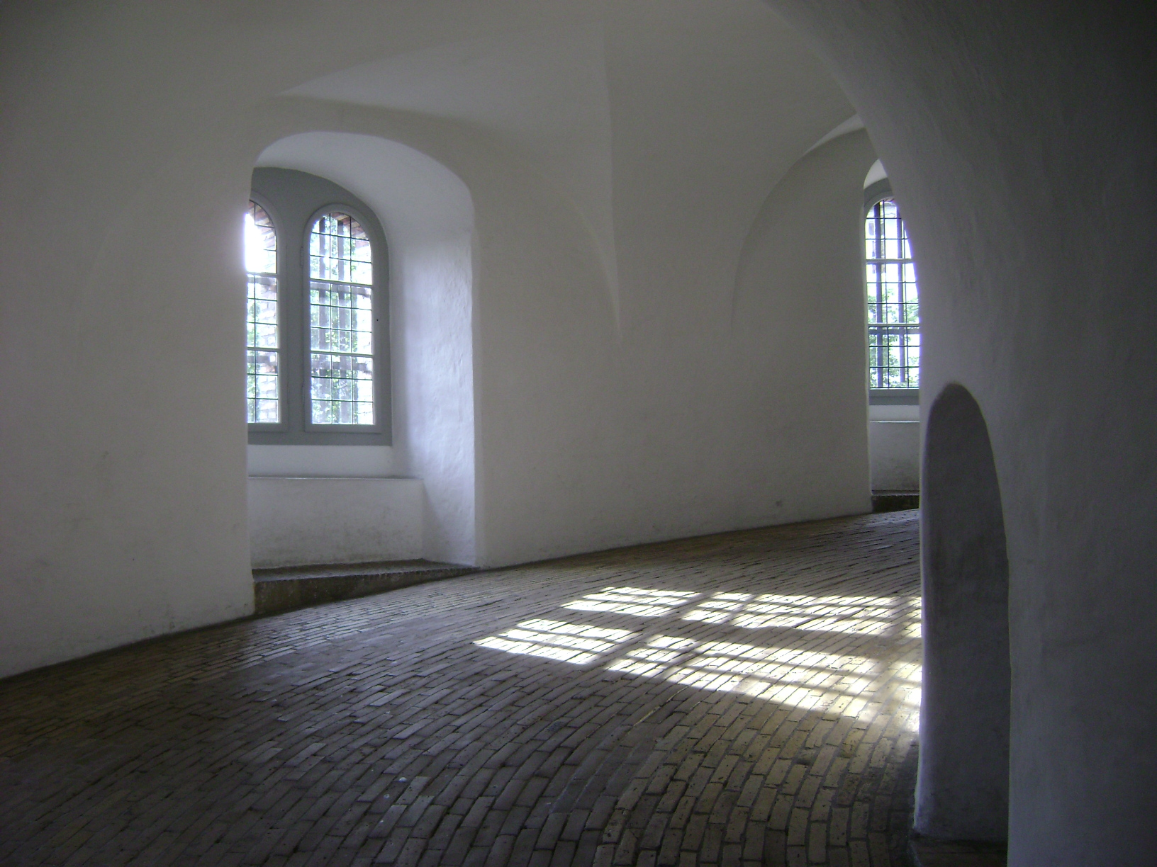 Denmark. Capital Region. Copenhagen